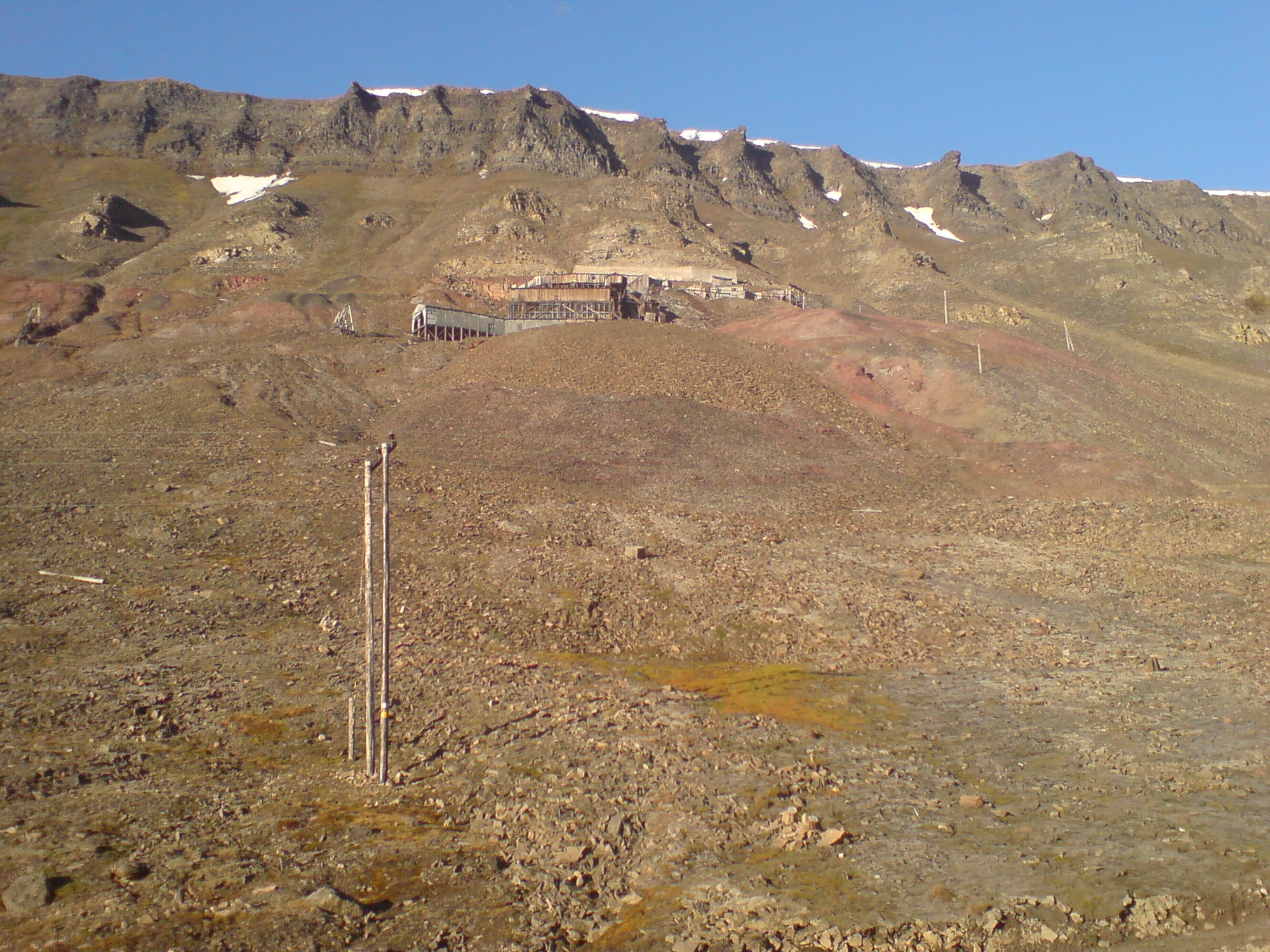 Old coal mine in Longyearbyen, Svalbard (Spitsbergen)